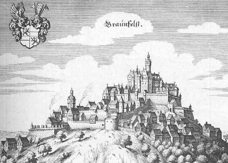 This is a scan of the historical document: Title: Braunfels - Topographia Hassiae language: german